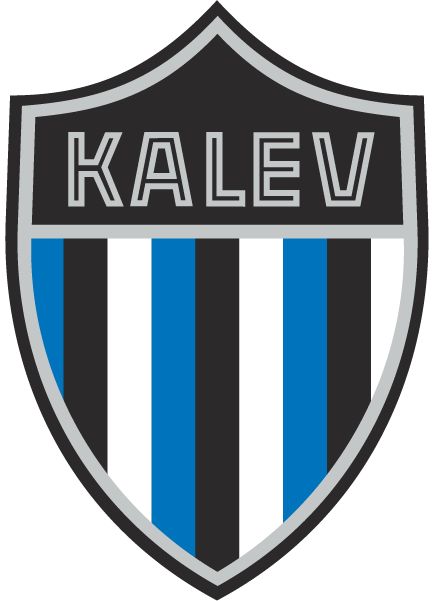 JK Kalev Tallinn logo